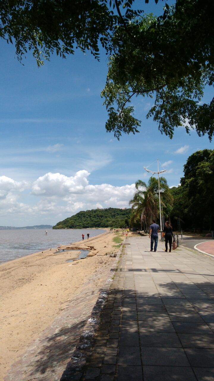 Sabia Hill (Morro do Sabiá, in Portuguese), seen from Ipanema, Porto Alegre, Brazil.